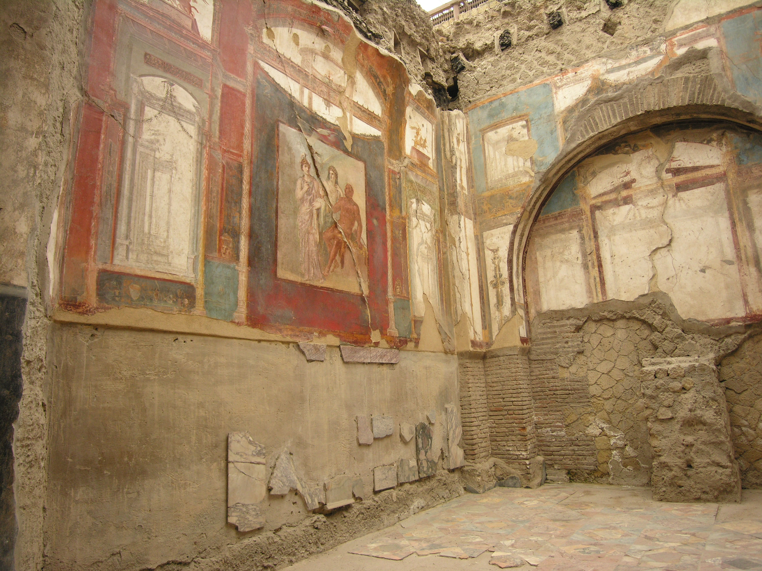 Hall of the Augustals (Herculaneum) - Hercules in Olympus with Juno and Minerva.